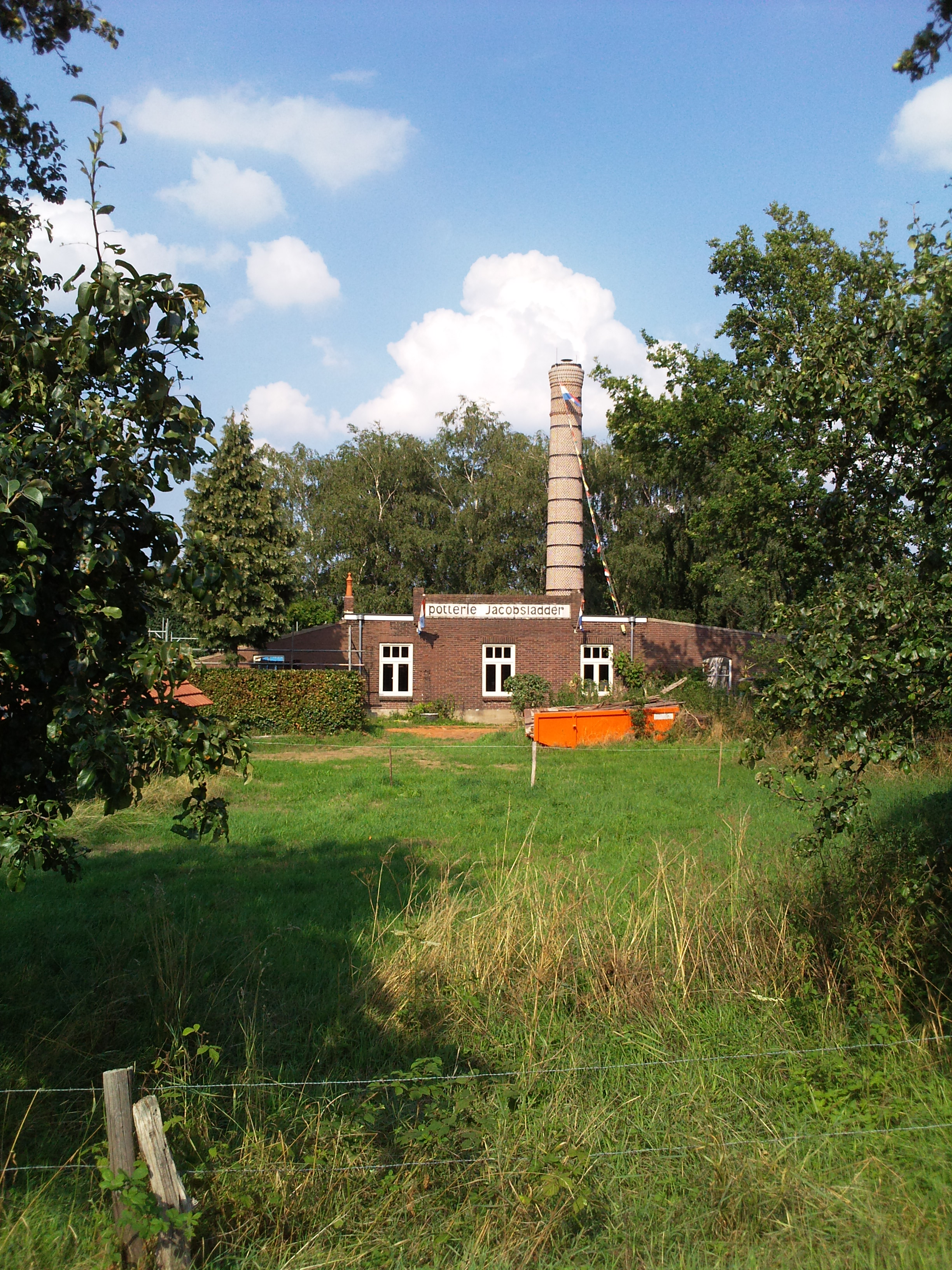 Pottery factory Jacobsladder, Rijksweg, Milsbeek, NL. MIP nr = 82186